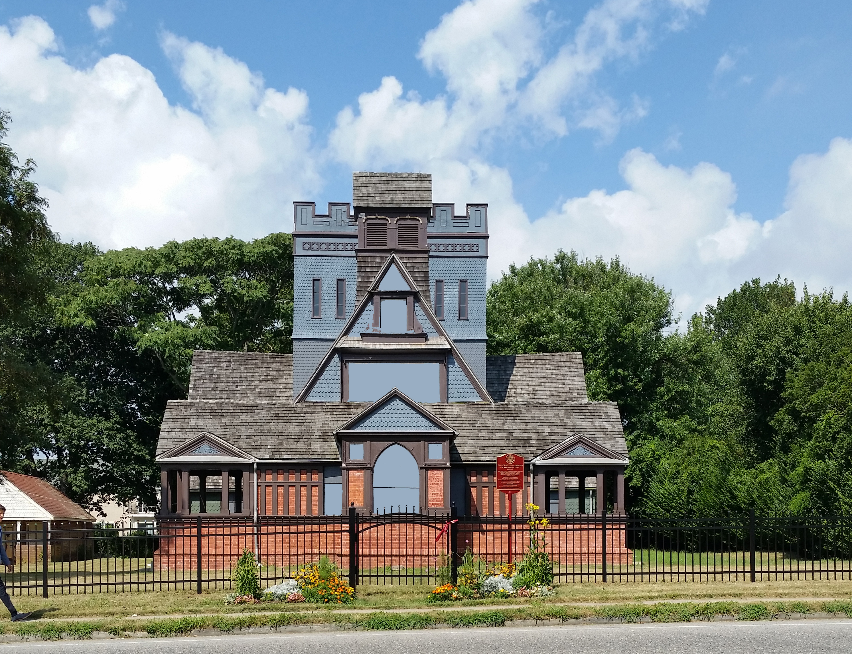 We have installed a new fence and planted a garden at the entry